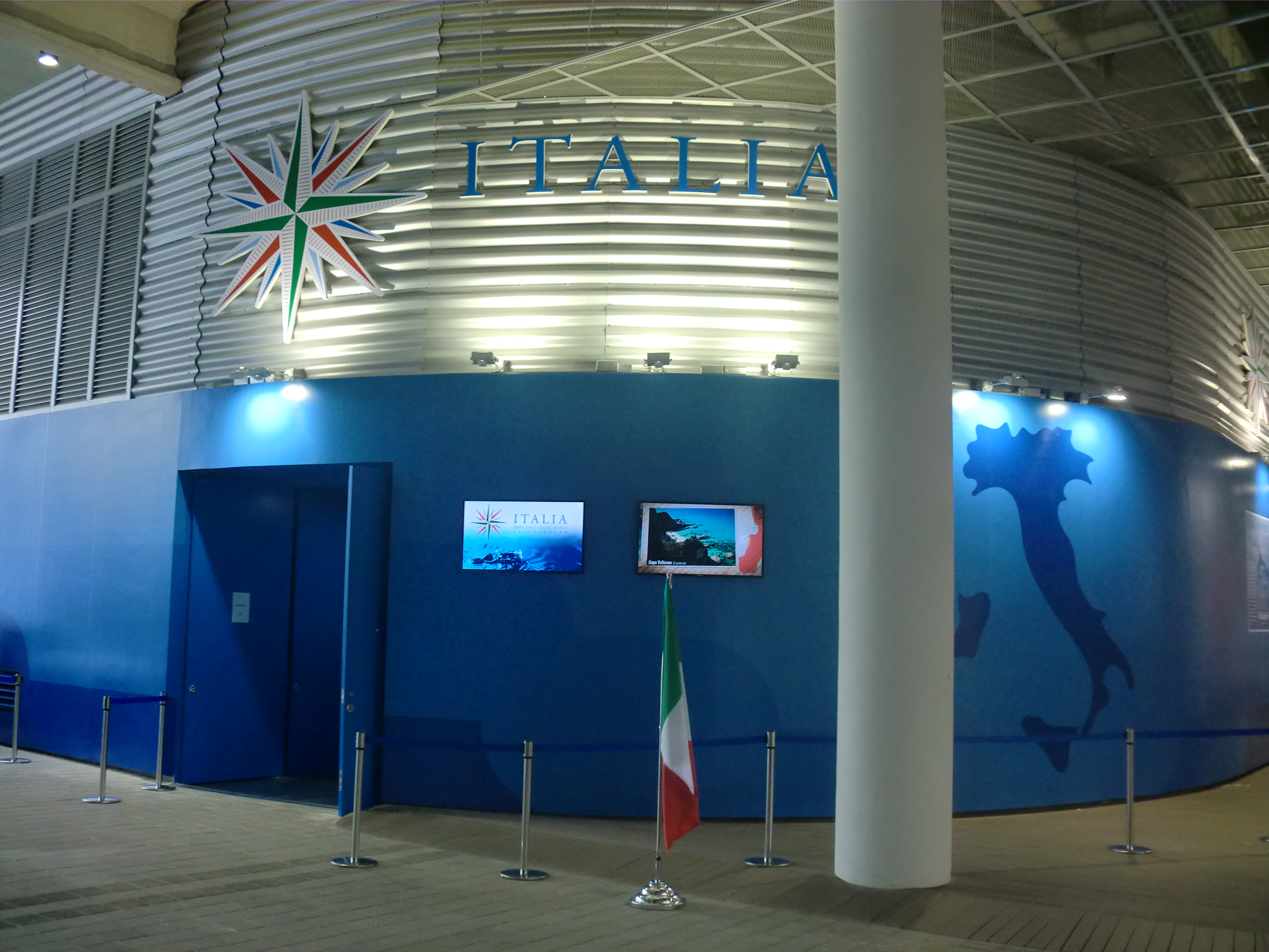 Expo 2012 International pavilion Italy